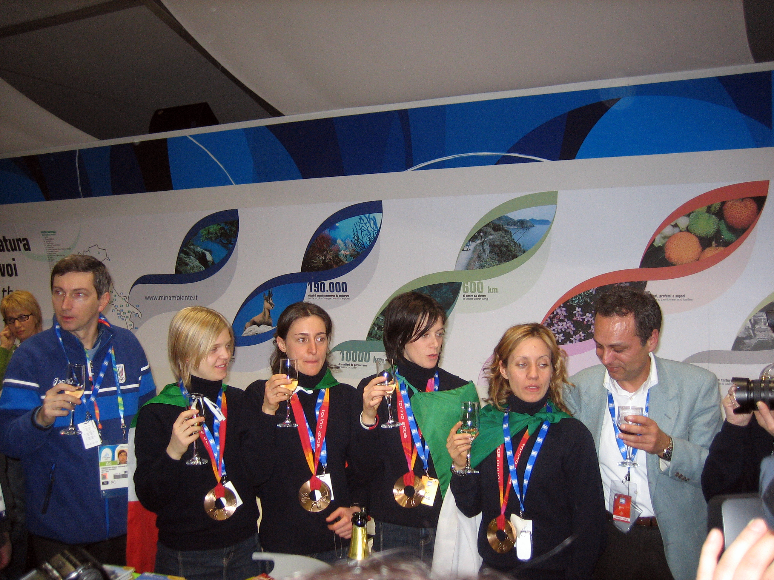 2006 Italian short track Olympic medalists (Arianna Fontana, Katia Zini, Mara Zini and Marta Capurso)